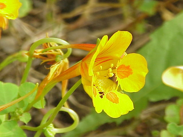 Species: Tropaeolum minus Family: Tropaeolaceae Image No. 2